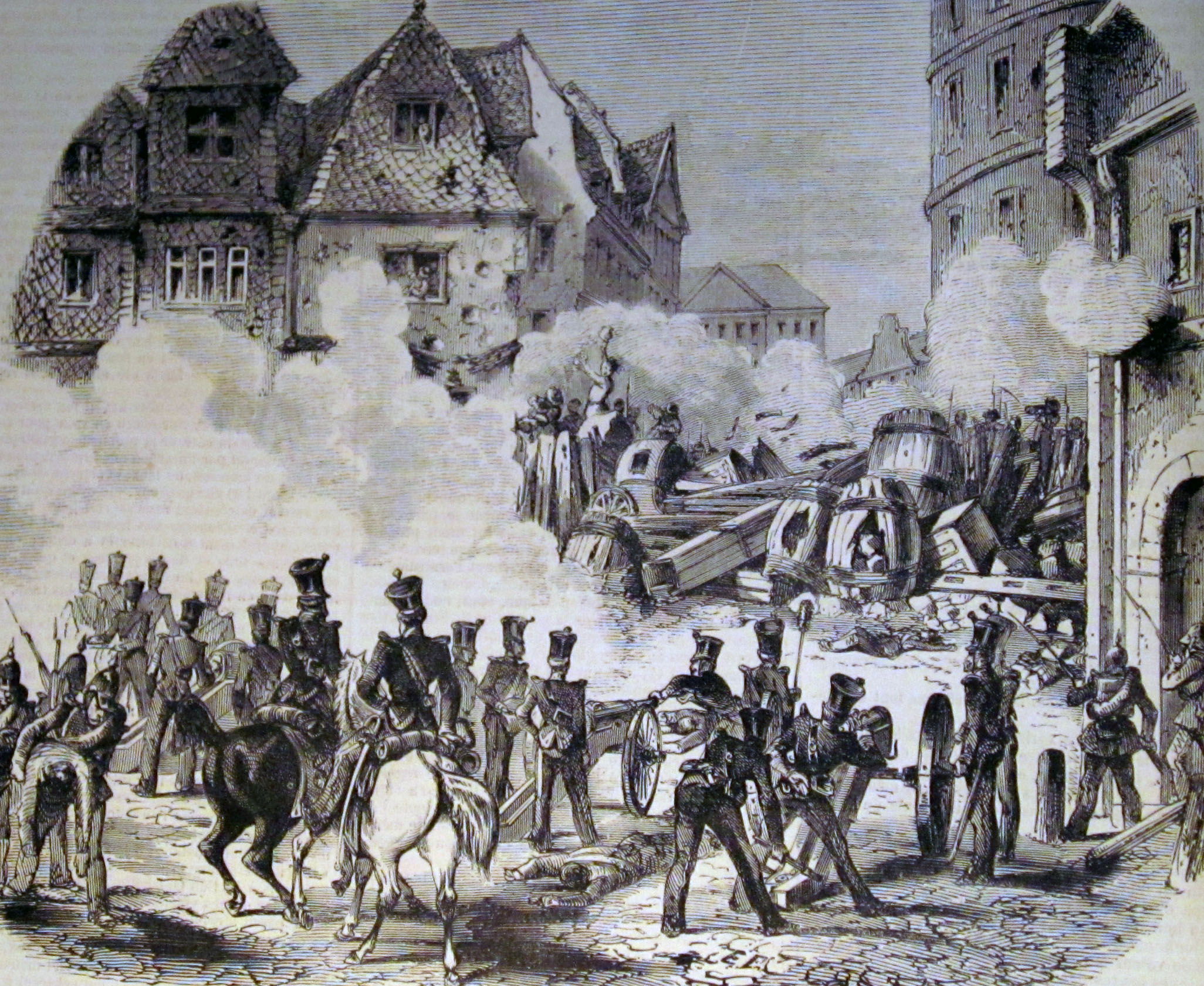 Insurrection in Frankfurt on 18 September 1848 - attack on a barricade by artillery